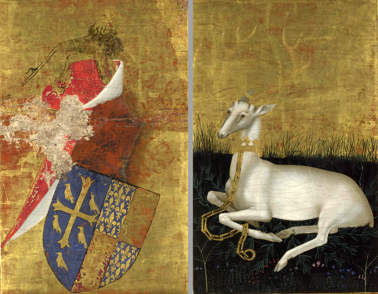 The Wilton Diptych, a tempera picture on two folding panels showing Edward the Confessor's mythical arms and Richard II's white hart badge. Location, National Gallery, London.